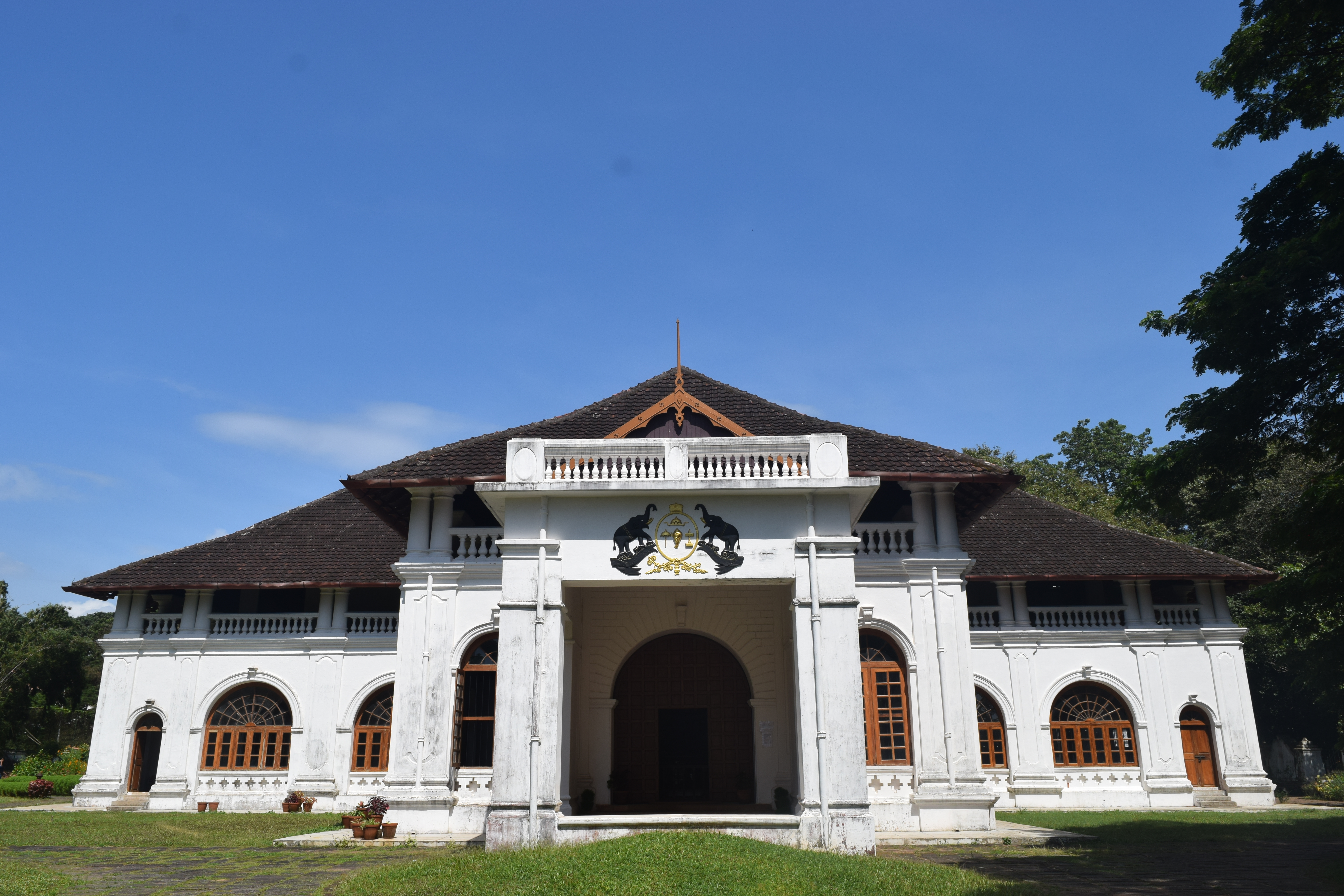 Sakthan Thamburan Palace